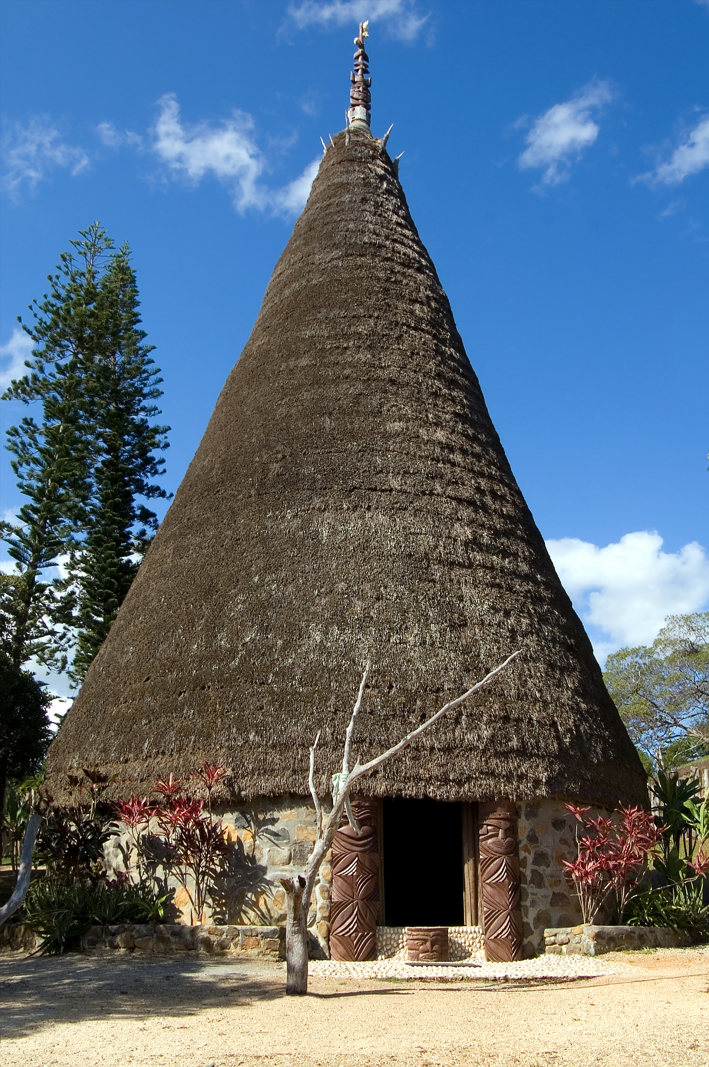 Kanak house with flèche faîtière. Tjibaou cultural center, Nouméa, New Caledonia. (Modifications: rotated, partial shadow removal, color adjustment, sharpend, shrinked)